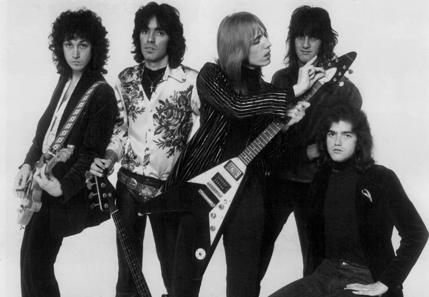 Photo of the musical group Tom Petty and the Heartbreakers.